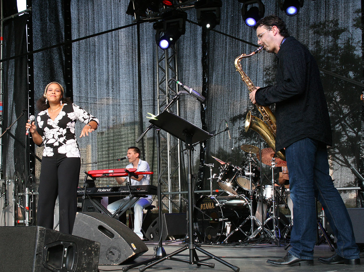 Soul singer Stella Jones with Austrian formation Soul ProjectSoul Project at the Donauinselfest 2007